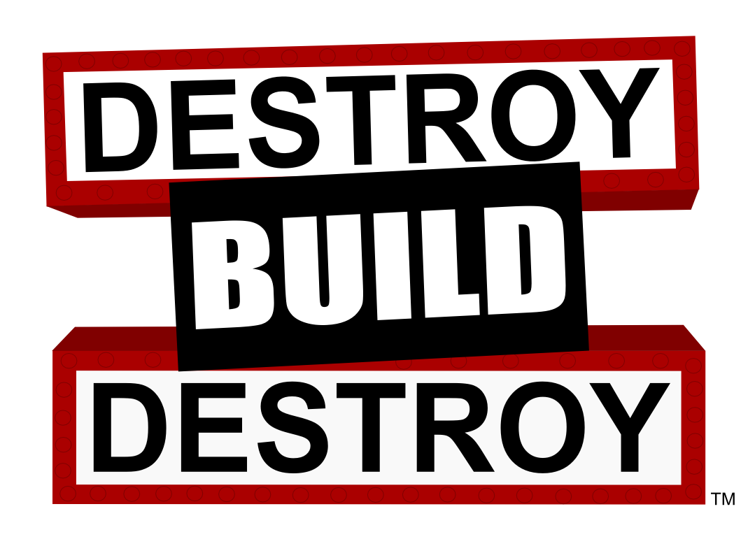 Title of Destroy Build Destroy program